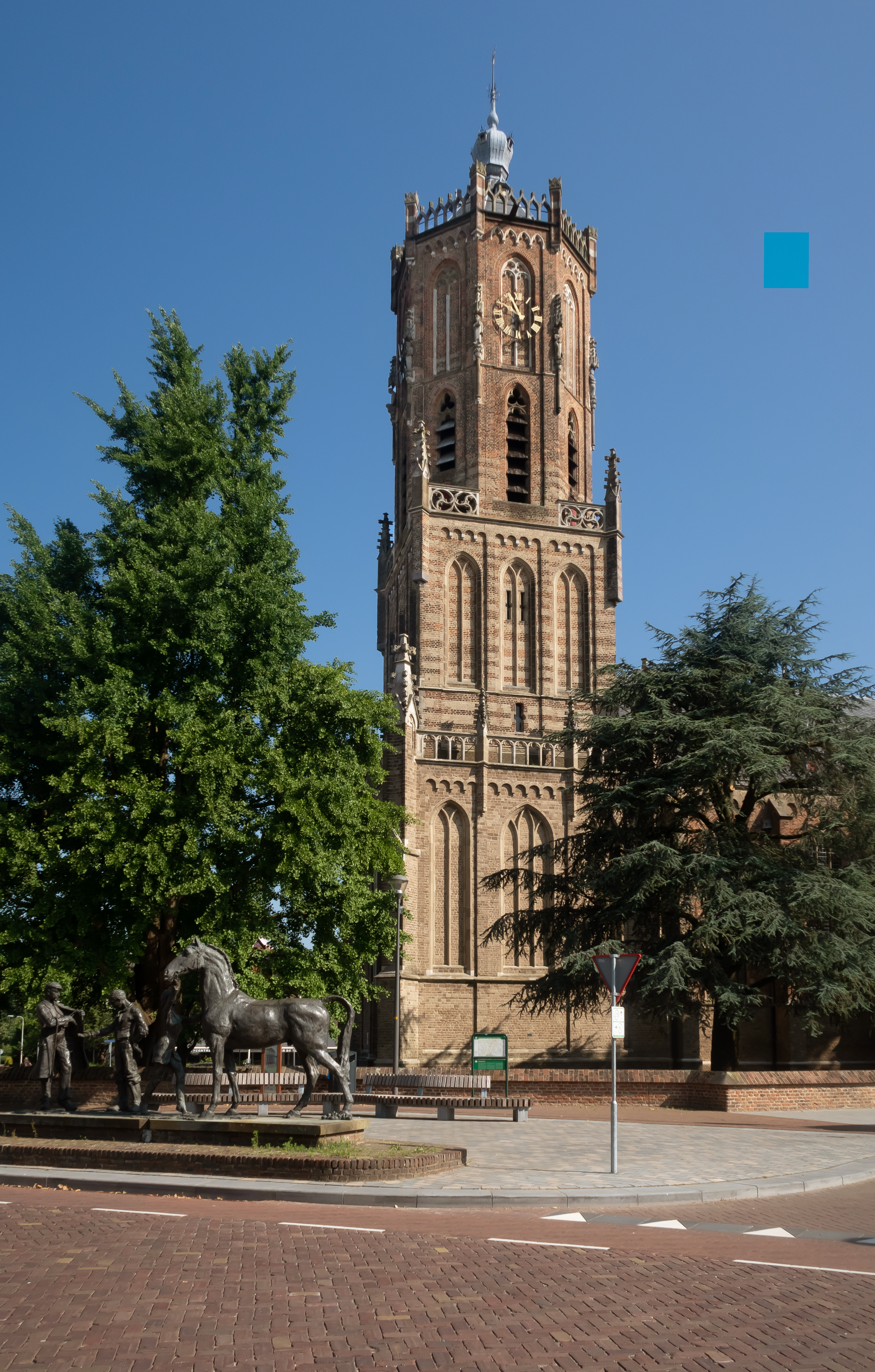 Elst, church: de Grote Kerk